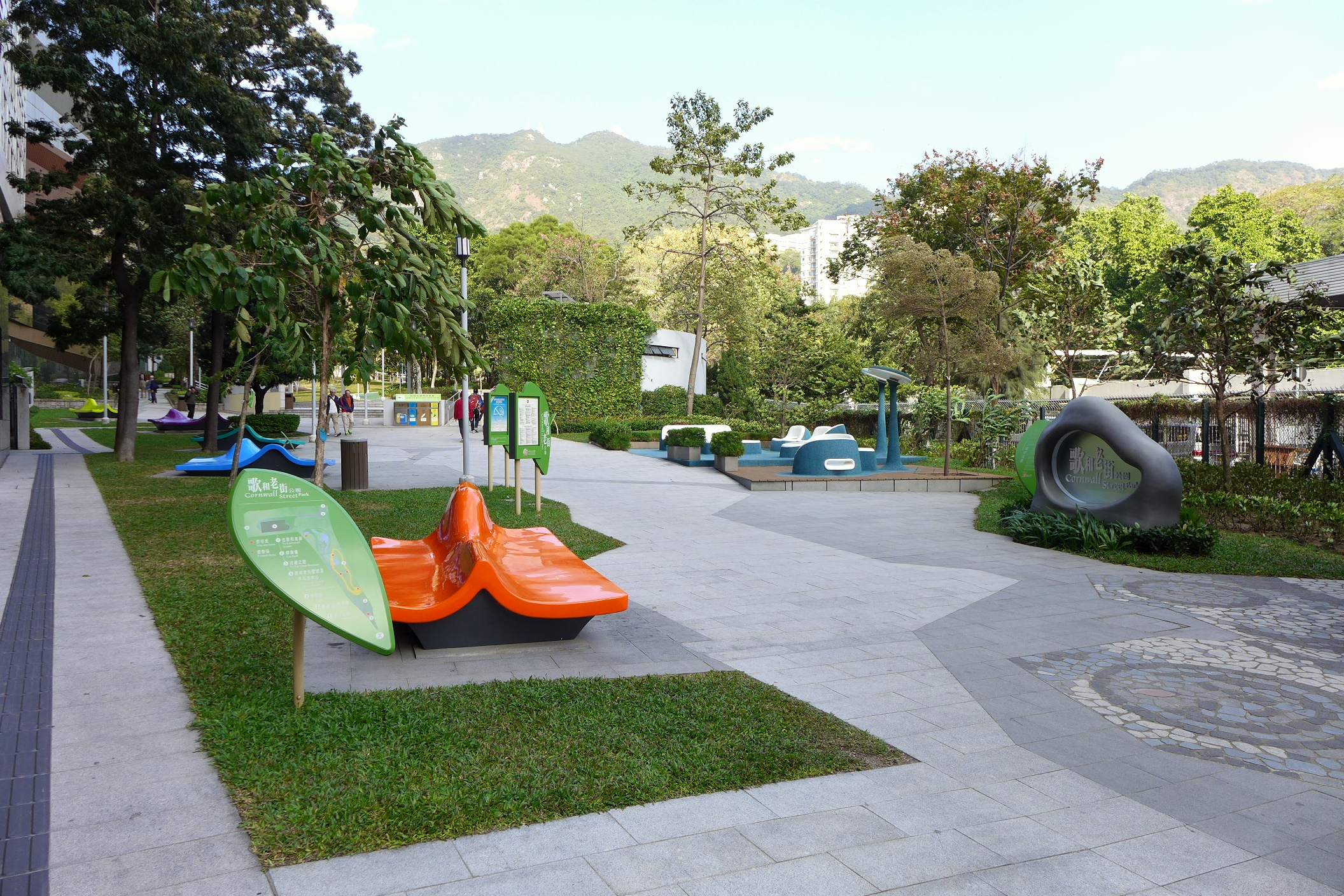 Cornwall Street Park